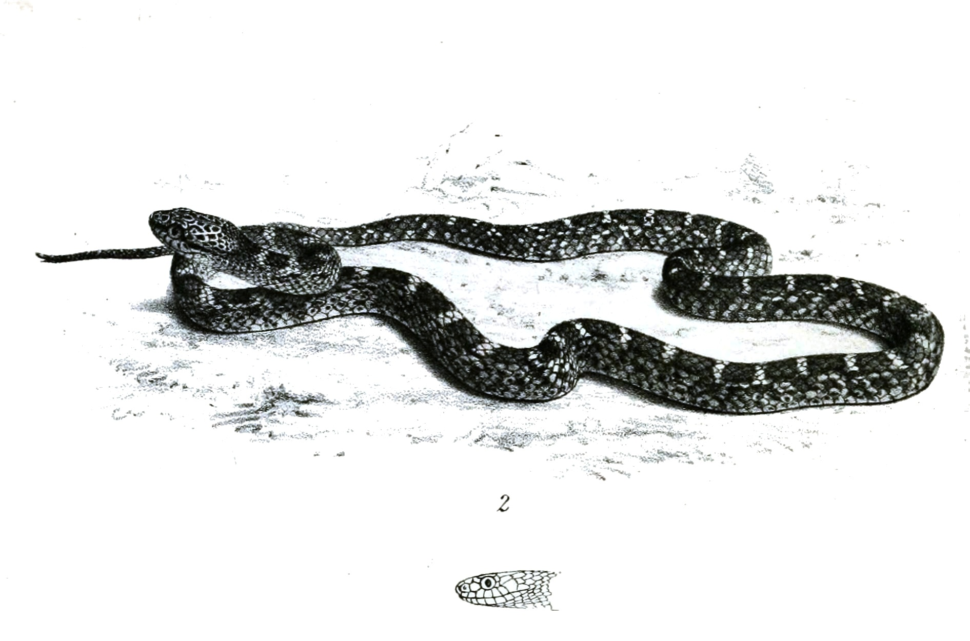 Chamætortus aulicus = Dipsadoboa aulica (Günther, 1864) in Proceedings of the Zoological Society of London (vol. 1864, plate XXVI)